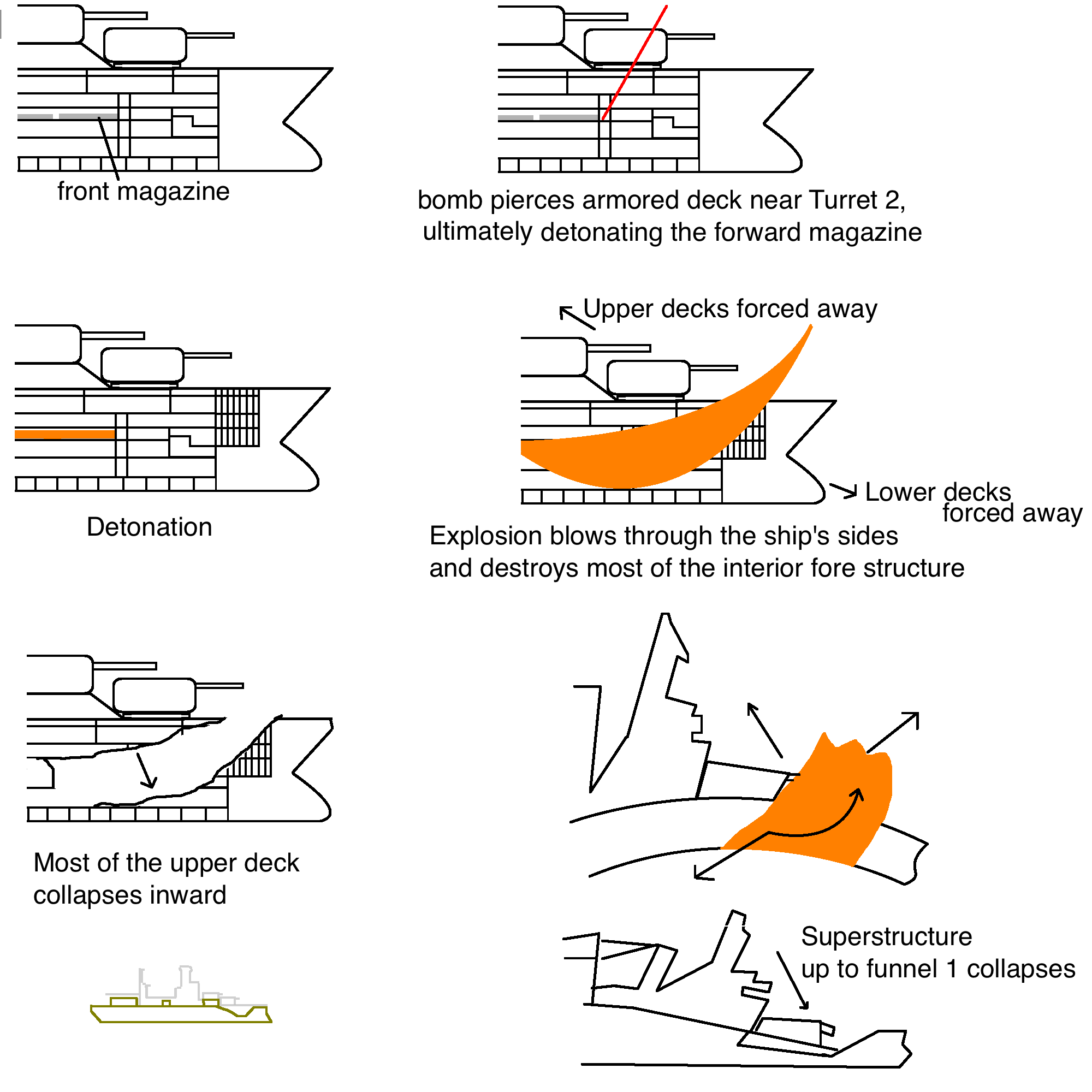 Simplistic representation of the sinking of the USS Arizona